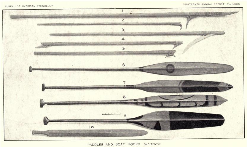 Boathooks and paddles made and used by Yu'pik and Inupiaq hunters on the Alaska coast, late 1800s. Boathooks: 1, Norton Sound, style used on Umiaks; 2, Lower Yukon ; 3 Golofnin Bay; 4, Lower Kuskoquim; 5, Sledge Island. Paddles: 6, Big Lake; 7, 8 Kushunuk; 9, King Island; 10, specialized paddle used for quiet approach when hunting seal or walrus, also to slap the water to cause the injured animal to dive, Cape Denbiegh. Nelson provides further description and illustrates other examples. Note that despite the single blades these are kayak paddles.